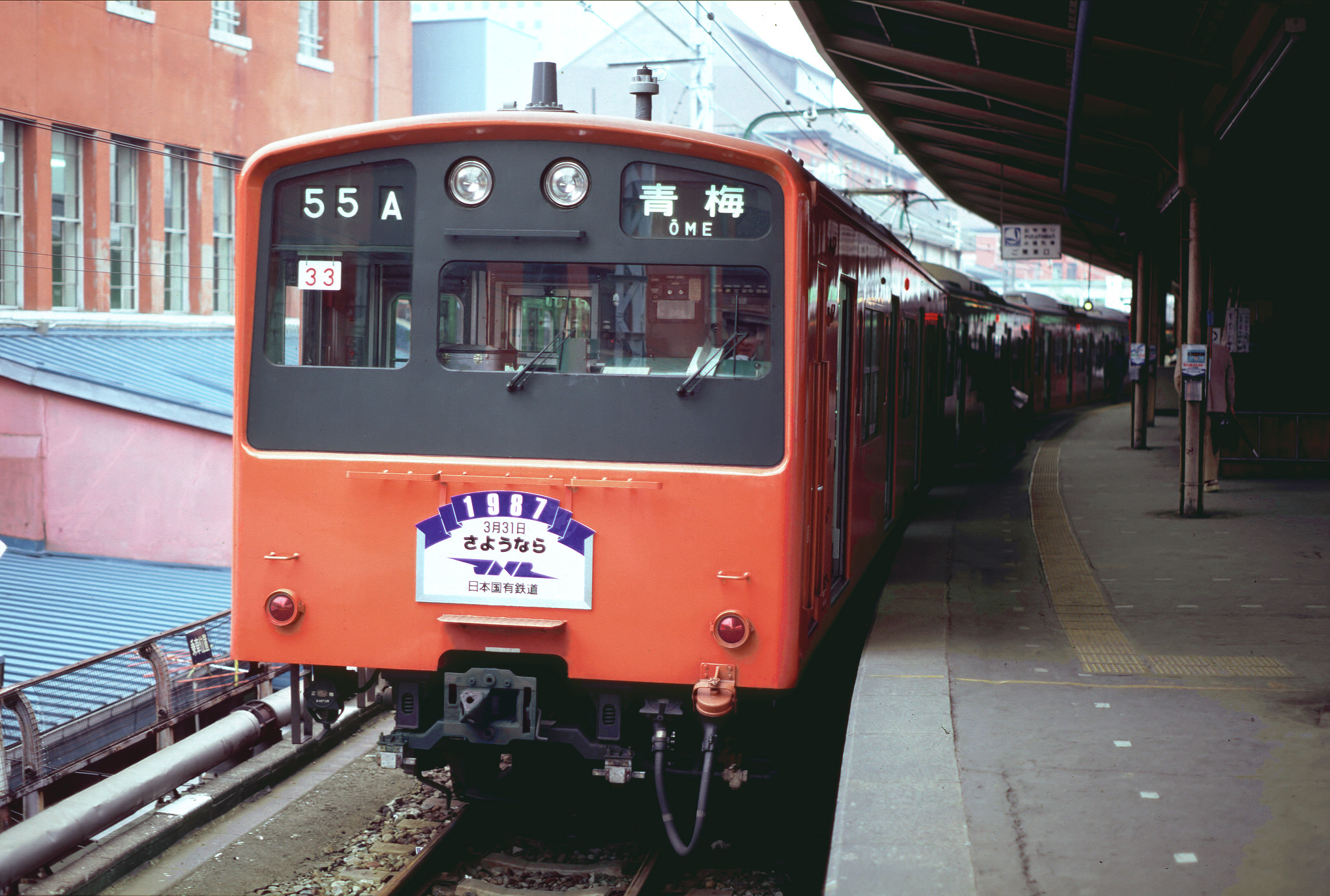 Japanese National Railways 201 series EMU with the headsign that displays the privatization of the enterprise on the side of the platform of Chuo Rapid Line at Tokyo station before transferring to the viaduct.